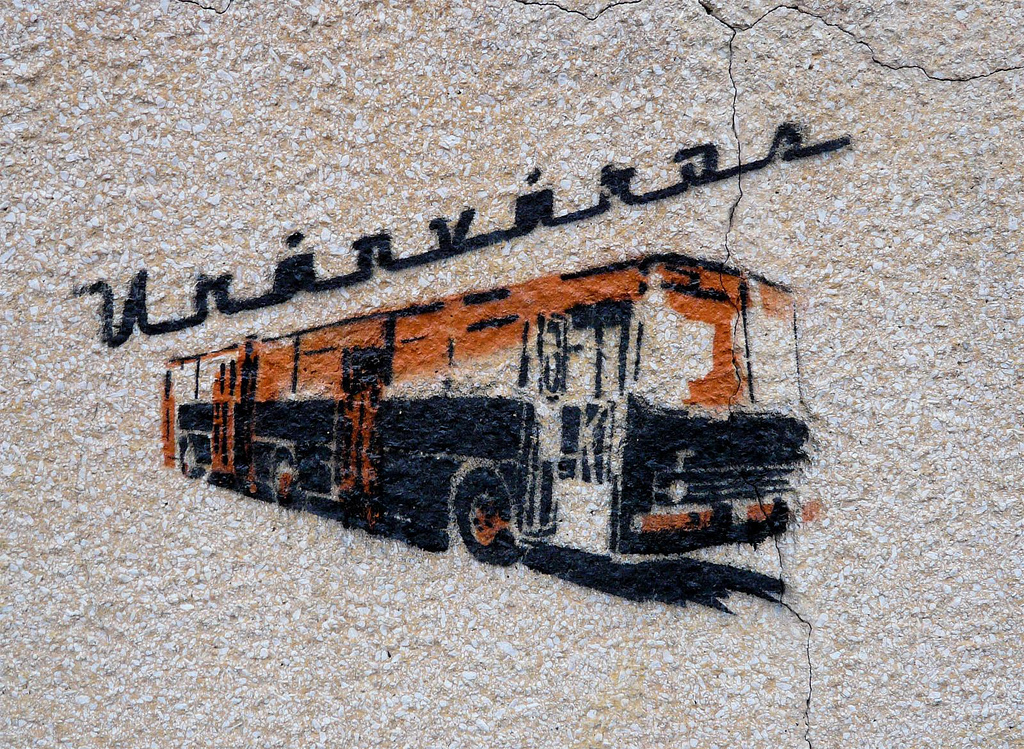 Street art in Uránváros, Pécs, Hungary